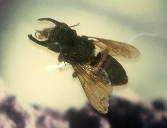 Megachile pluto